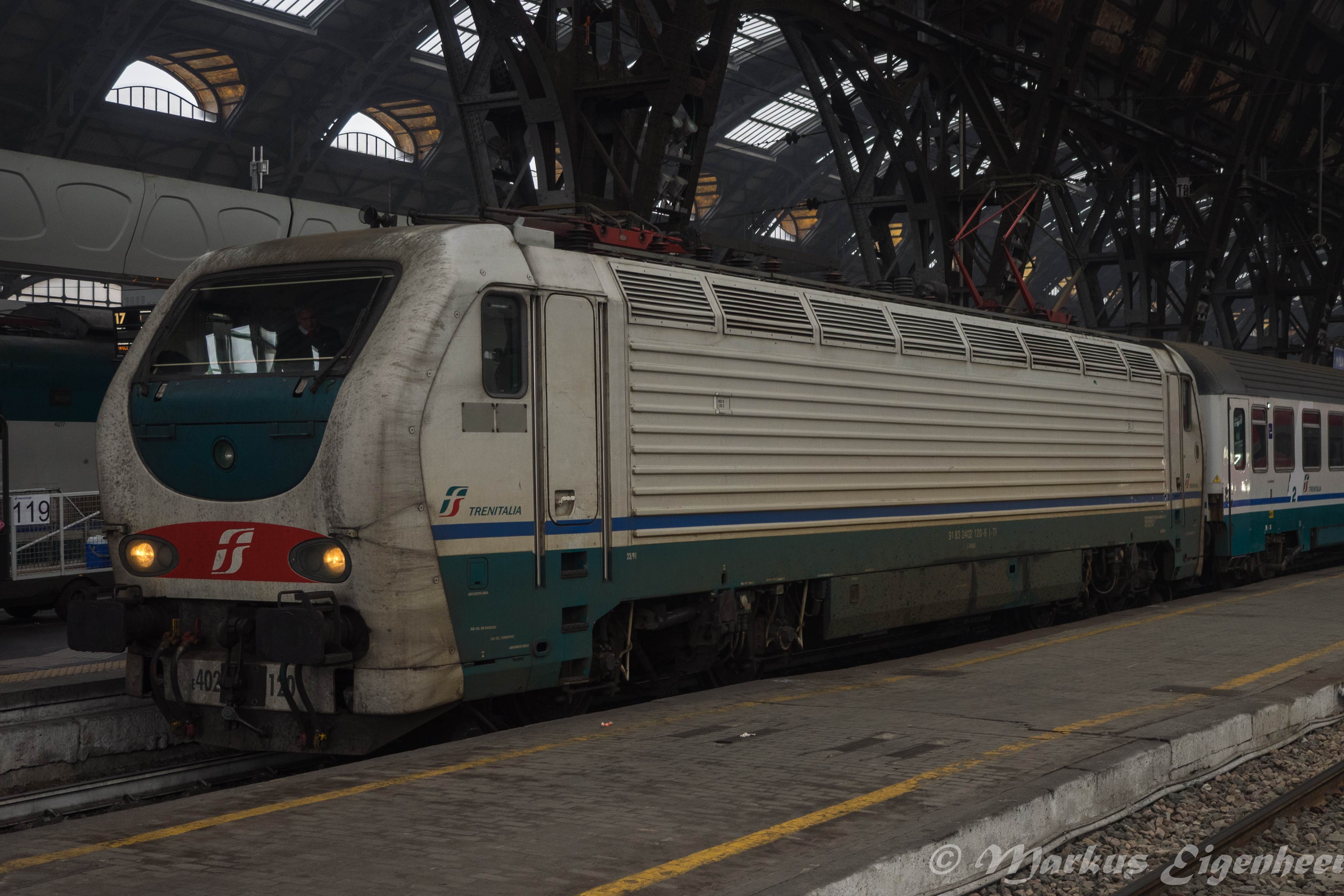 Milano C.le 02.02.2016